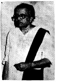 Ravindra Kelekar